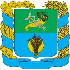 Coats of arms of Shevchenkivskyj raions